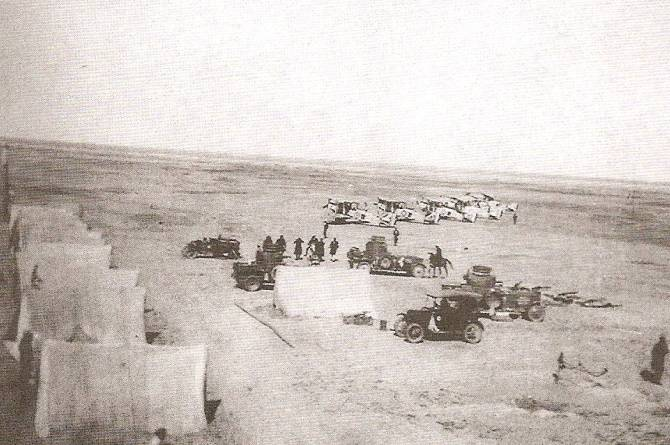 how uk army helps kuwait against ikhwan who came from saudai arabia in 1928.